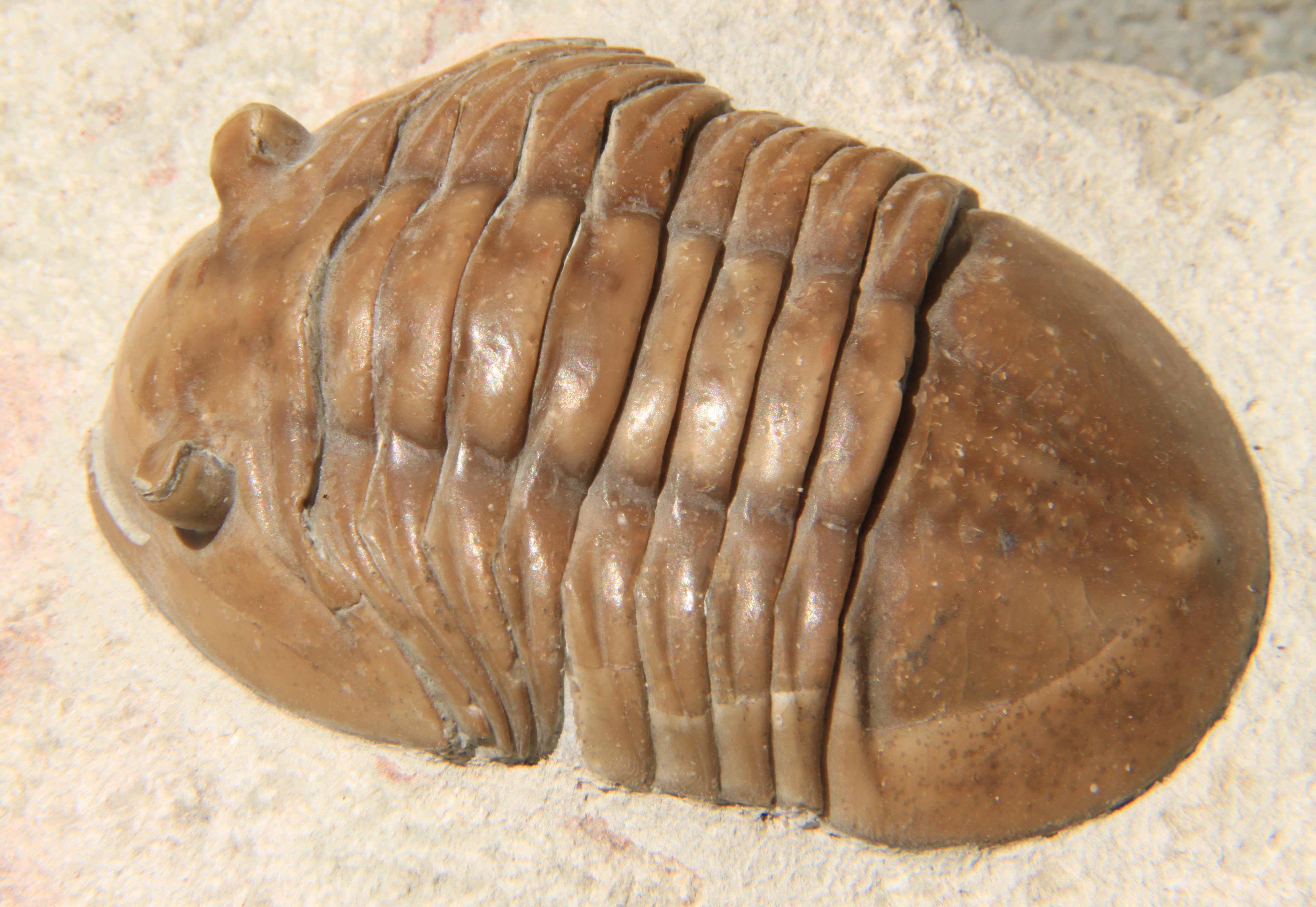 The trilobite Asaphus lattus, Order Asaphida, Family Asaphidae, 58mm along the axis, oblique lateral dorsal view, found at the Vilpovitsky Quarry near Petrograd, Russian Republic, from the Lower Ordovician